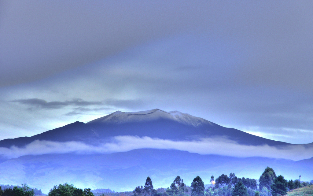 Purace Vulcano